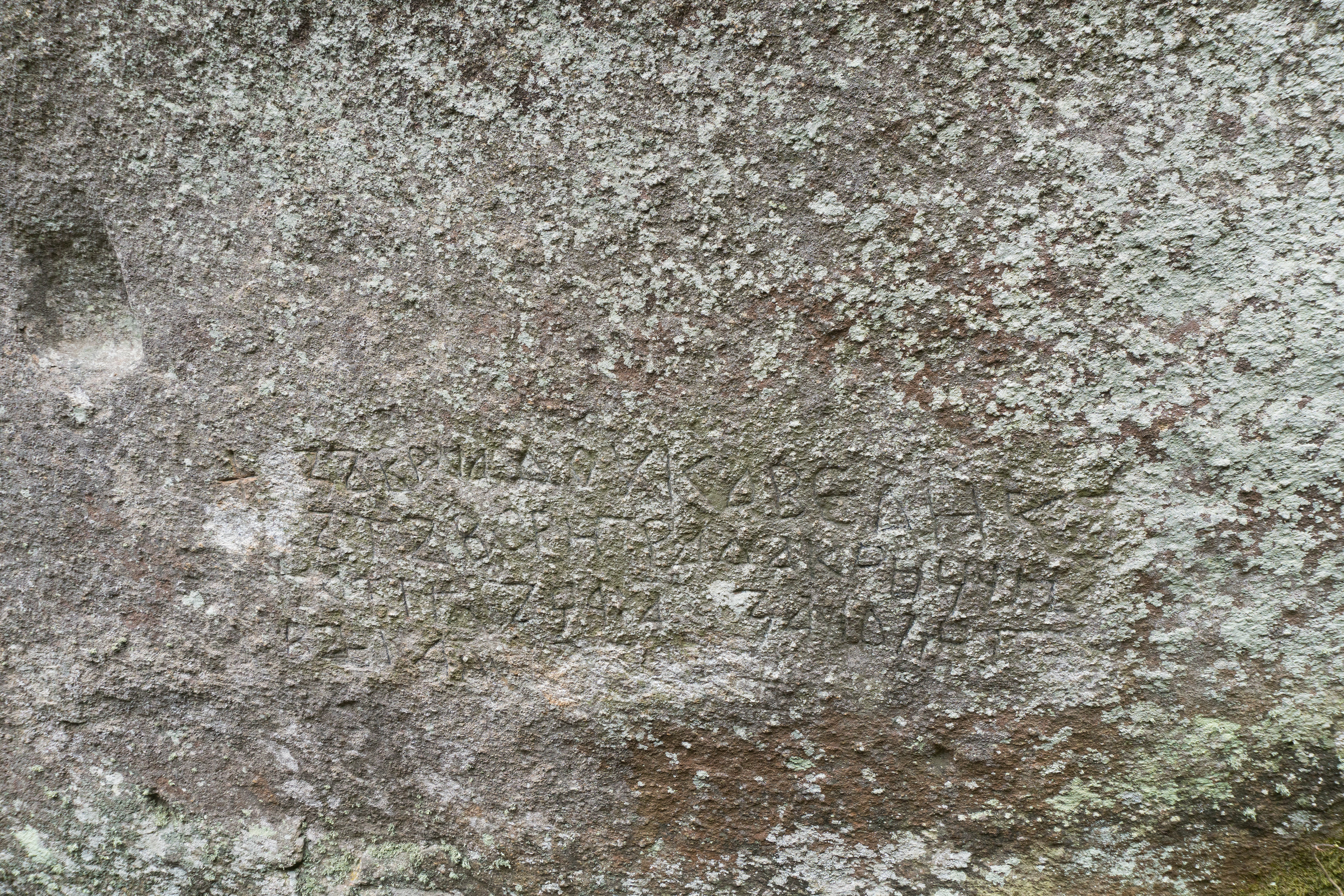 The Karchovo inscription